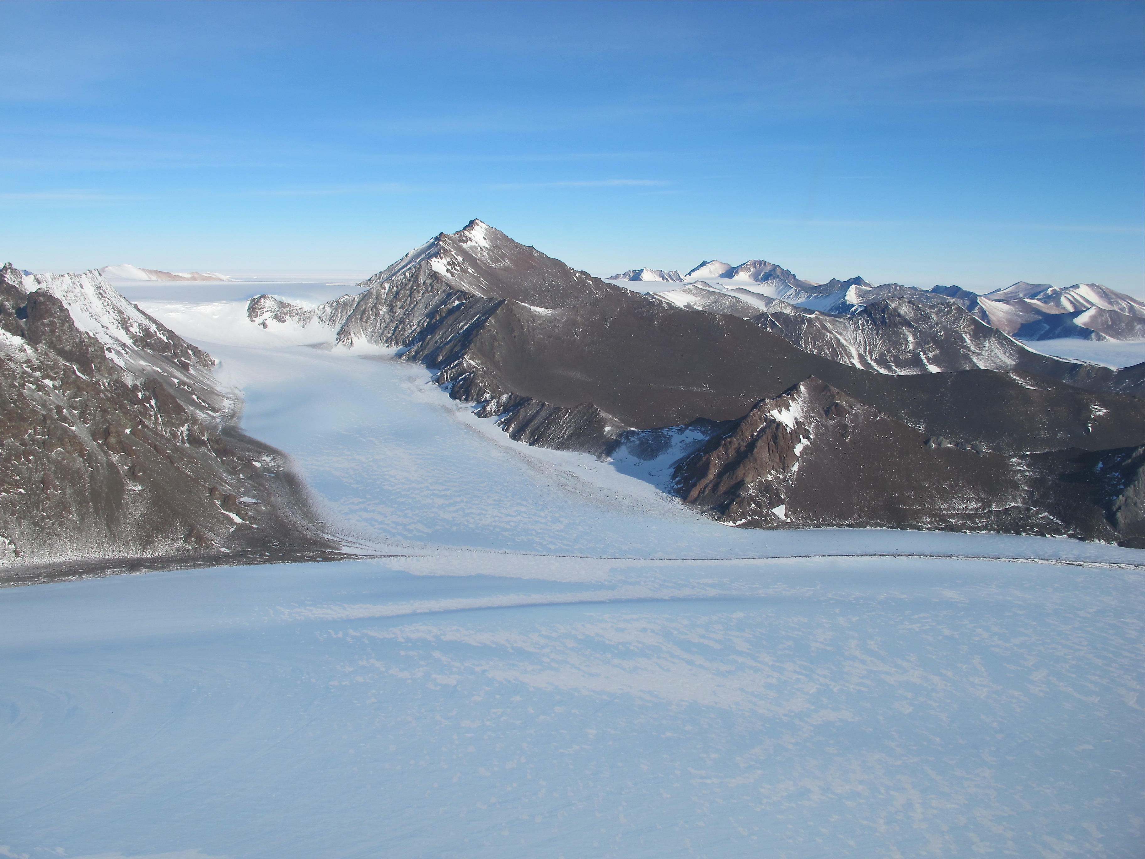 A glacier in the Pensacola Range of Antarctica seen from the DC-8 on the Oct. 28, 2012 survey of the Foundation and Support Force ice streams. NASA's Operation IceBridge is an airborne science mission to study Earth's polar ice. For more information about IceBridge, visit